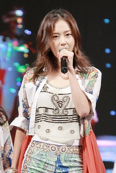 Gayoon performing in Paju on September 15, 2012.